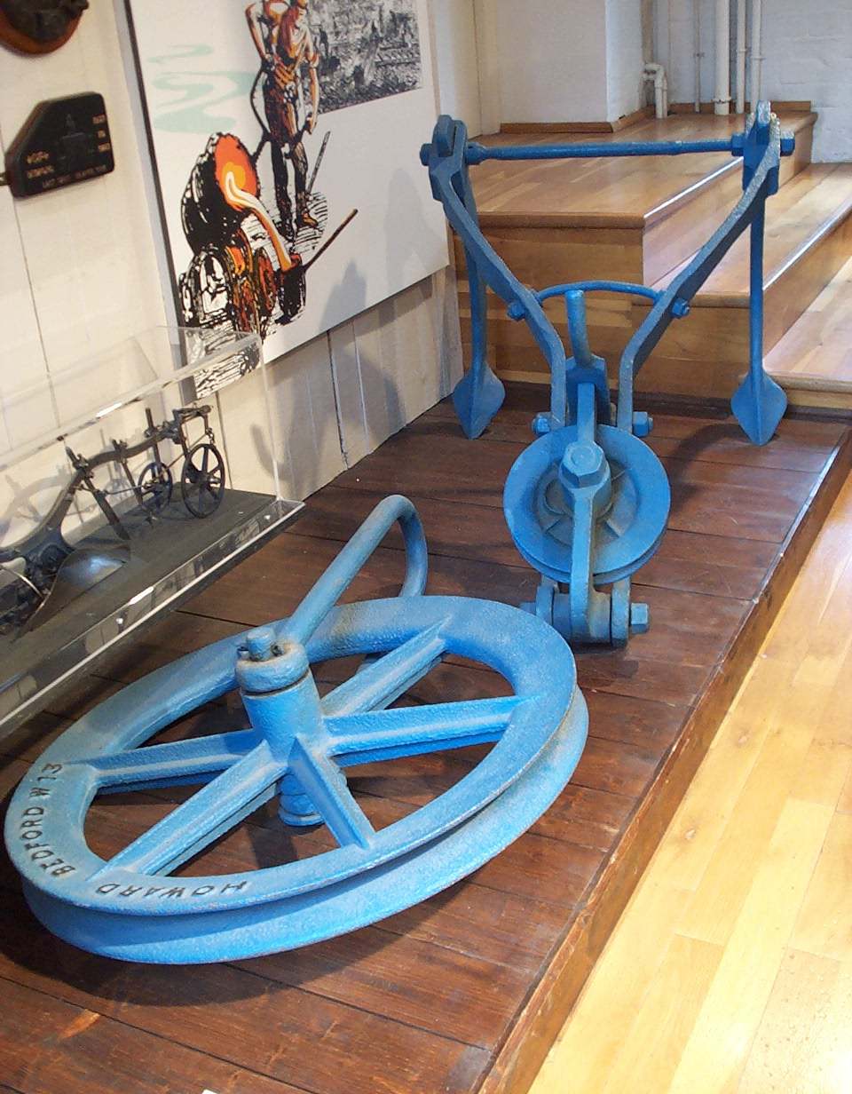 Pulley (front left) and anchor and pulley (rear right). Made around 1860 at Howard Engineering in Bedford and used in steam plowing. On display in Bedford Museum.